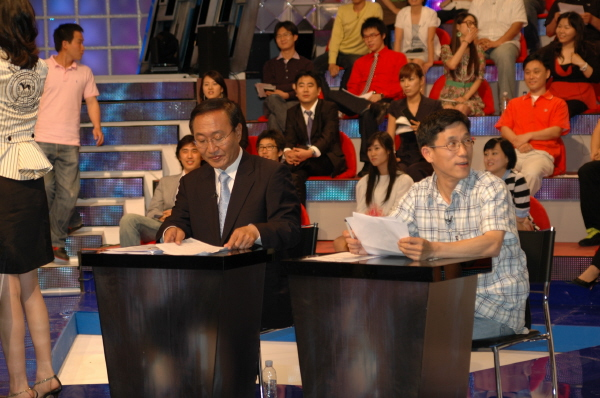 Roh Hoechan and Jin Joonggwon in the TV Debate. (XTM 백지연의 끝장토론)